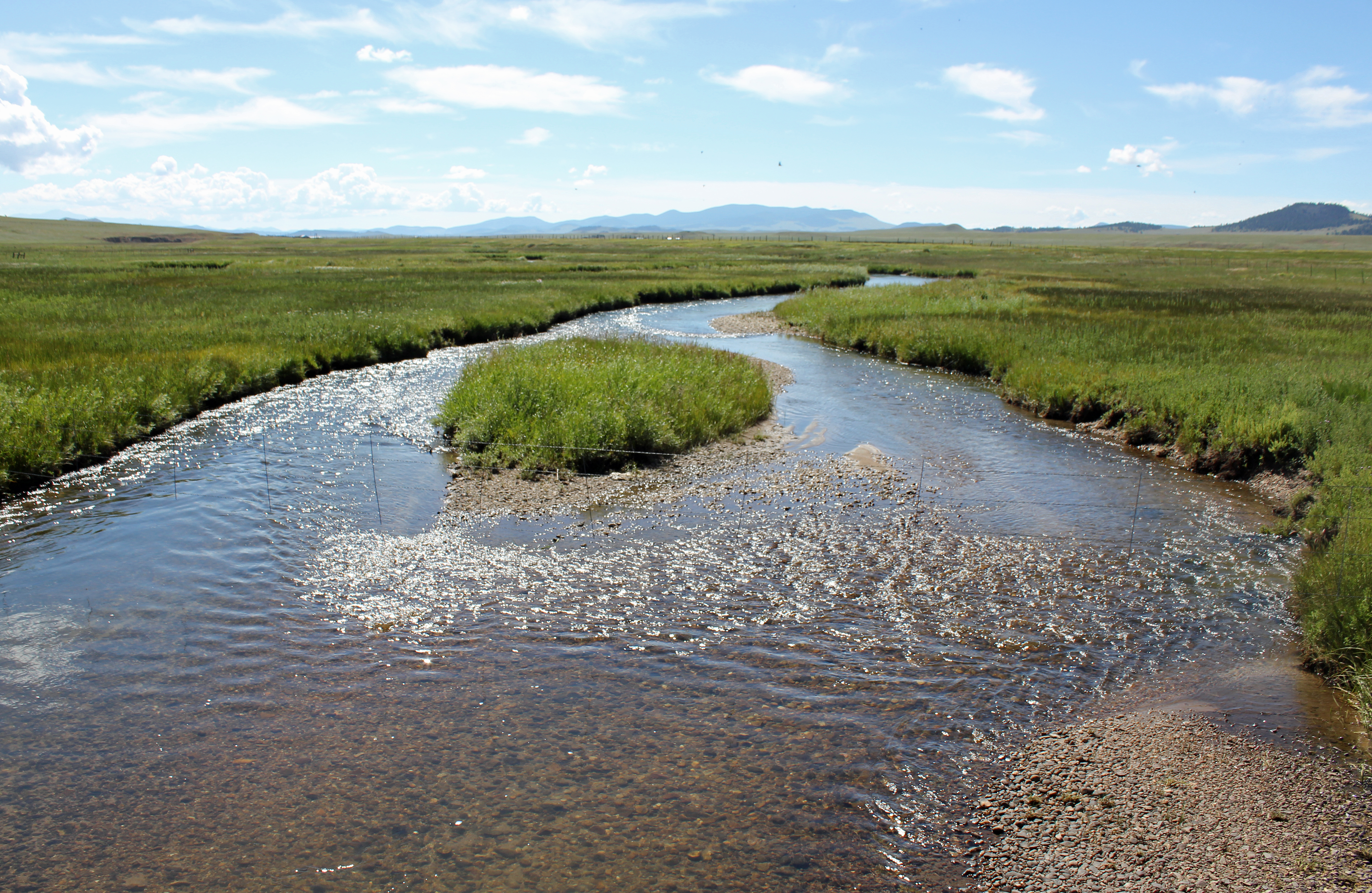 The Middle Fork South Platte River, located near Colorado State Highway 24 near Hartsel, in Park County, Colorado. This is near the confluence of the middle and south forks of the South Platte River.